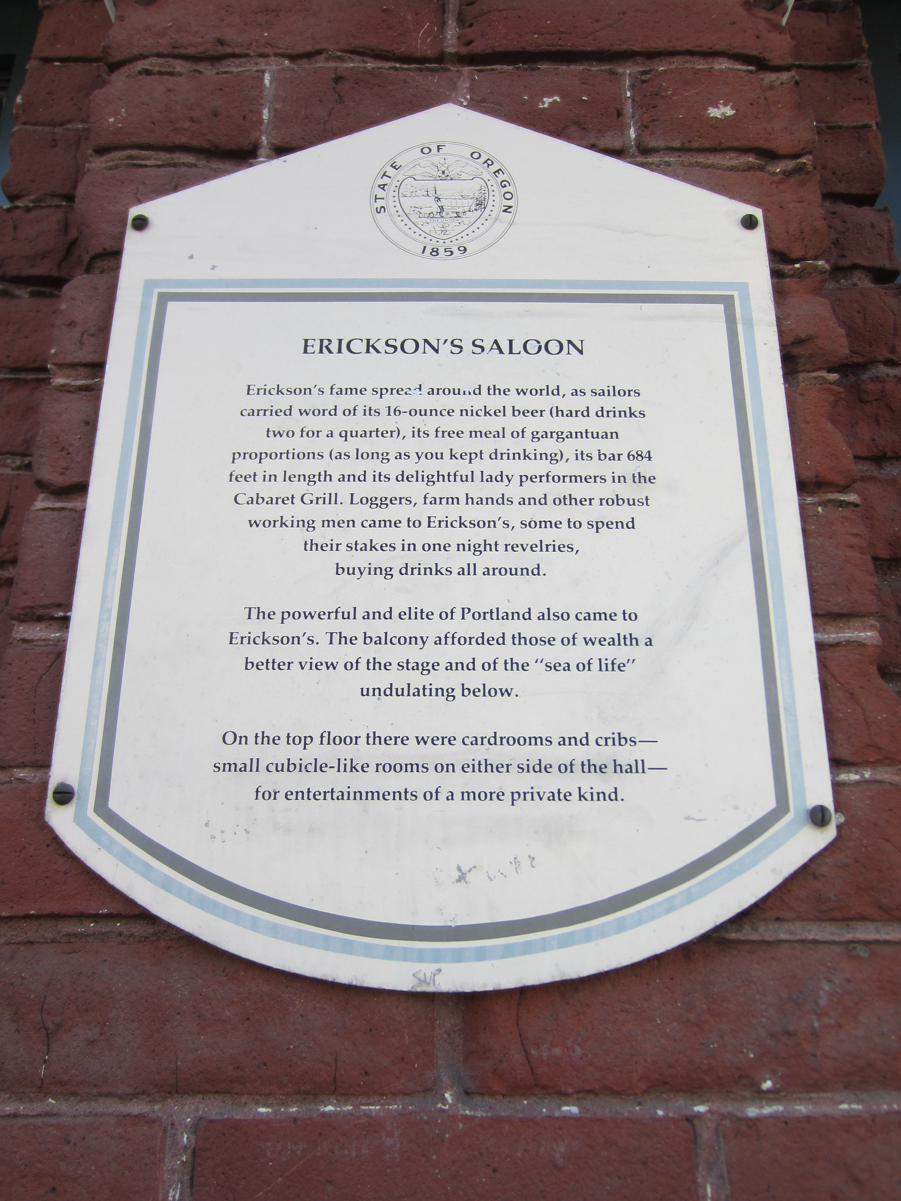 Sign for Erickson's Saloon in downtown Portland, Oregon